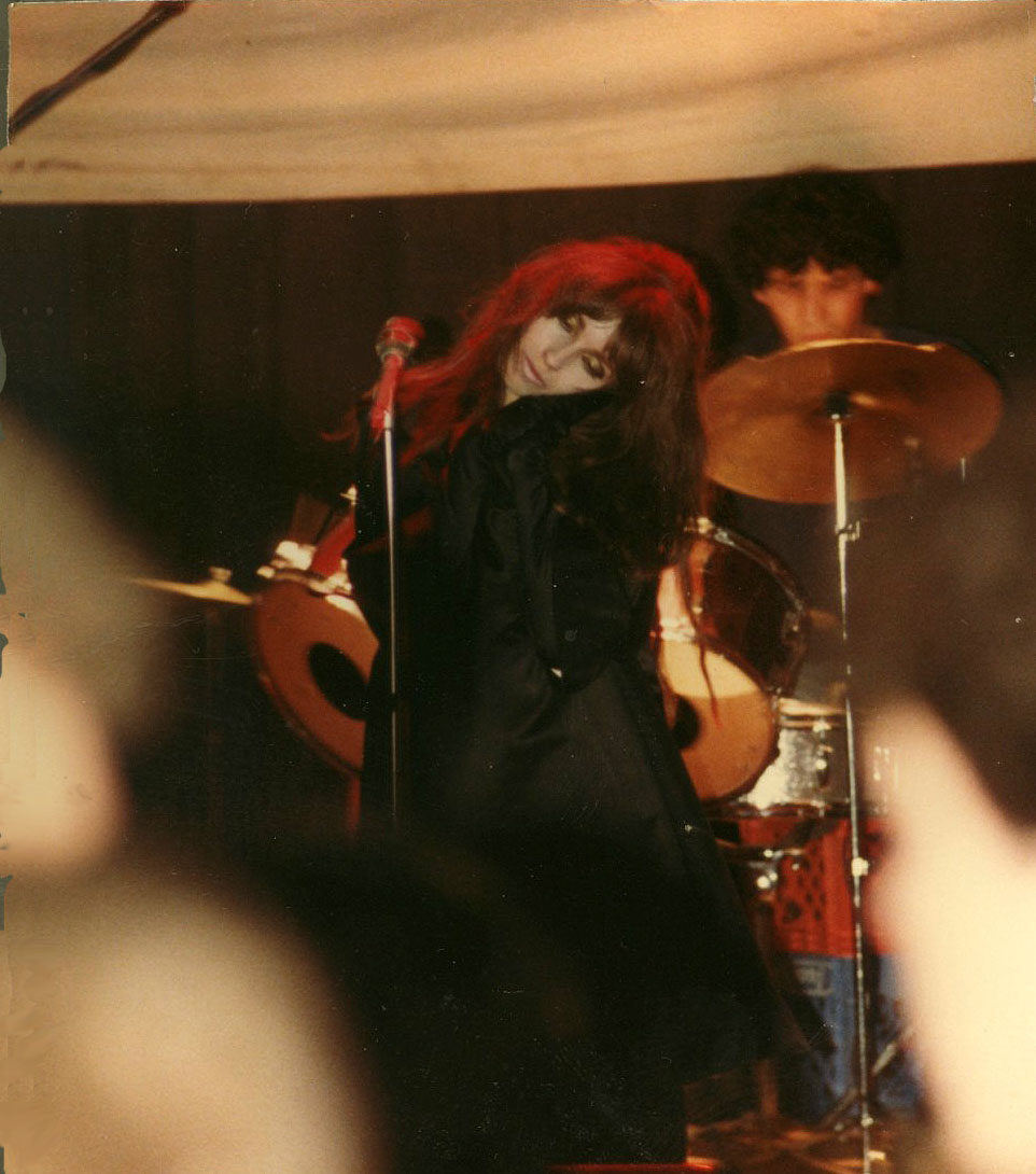 Niagara (Born 23 Aug 1956) Performing with Destroy All Monsters, Ann Arbor, Michigan, USA, spring 1982.